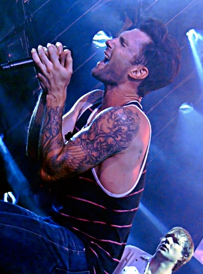 Adam Levine performing in St. Louis, MO opening night of the Honda Civic Tour